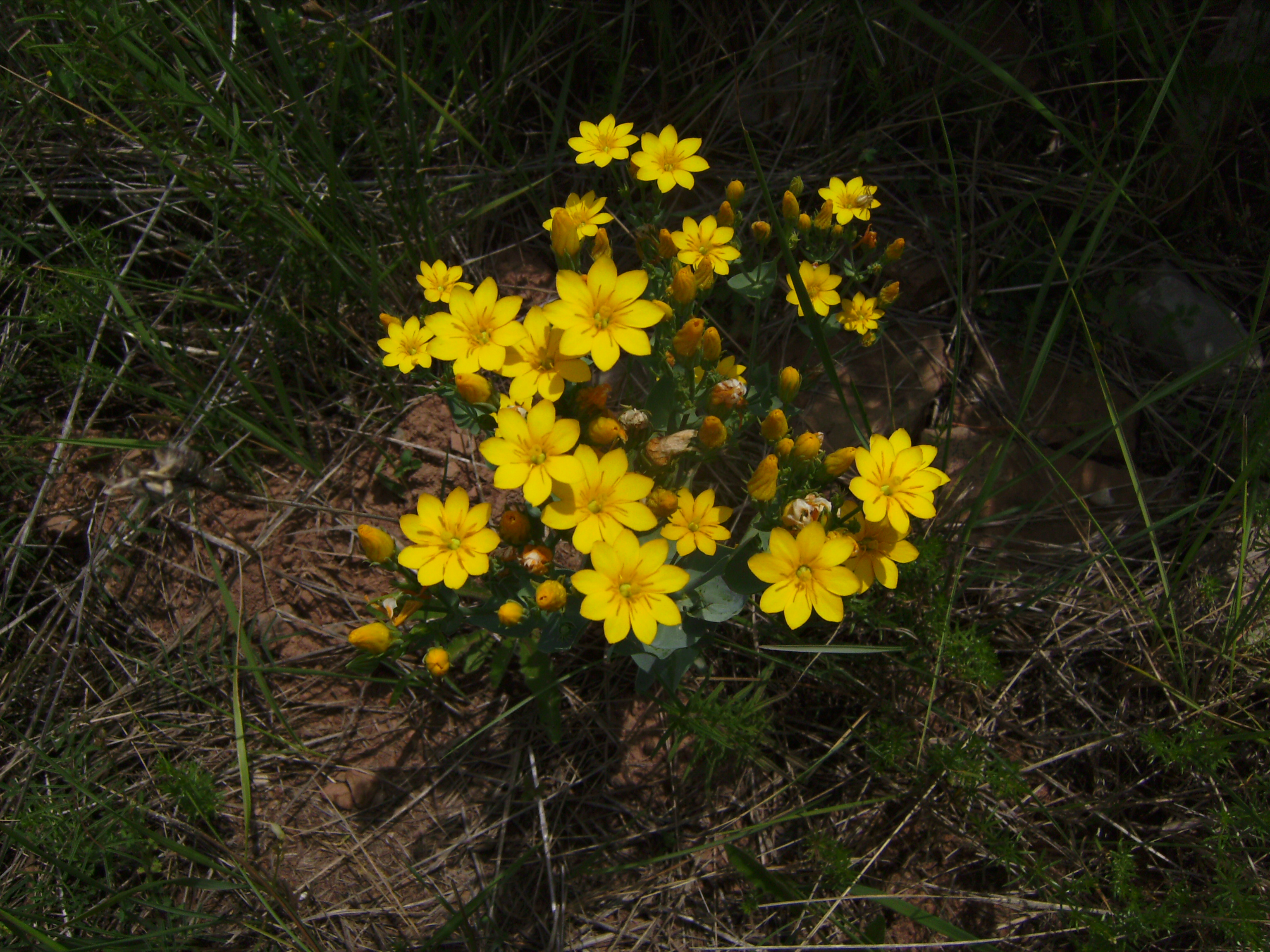 Blackstonia perfoliata flowers, Castelltallat, Catalonia